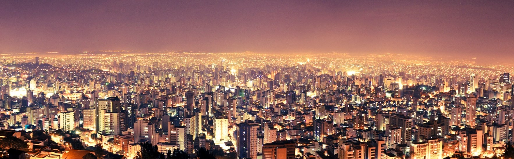 Night view of the Belo Horizonte city (MG), Brazil